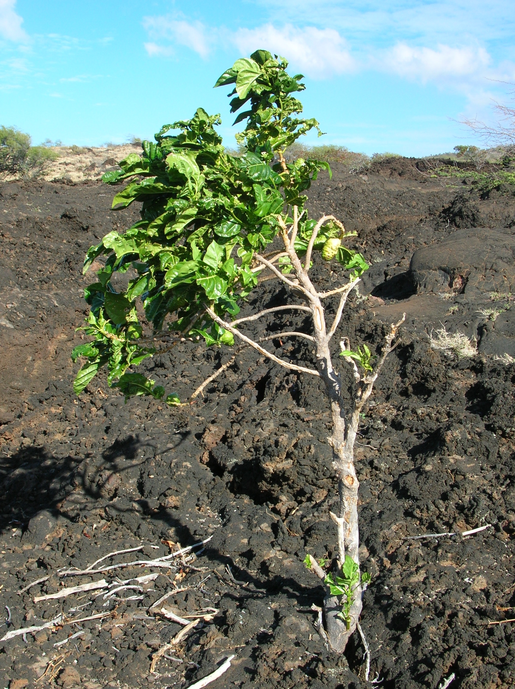 Morinda citrifolia (habit). Location: Maui, LaPerouse